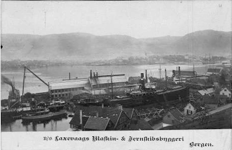 Laxevaag Maskin- & Jernskibsbyggeri, Laxevaag shipyard, near Bergen.